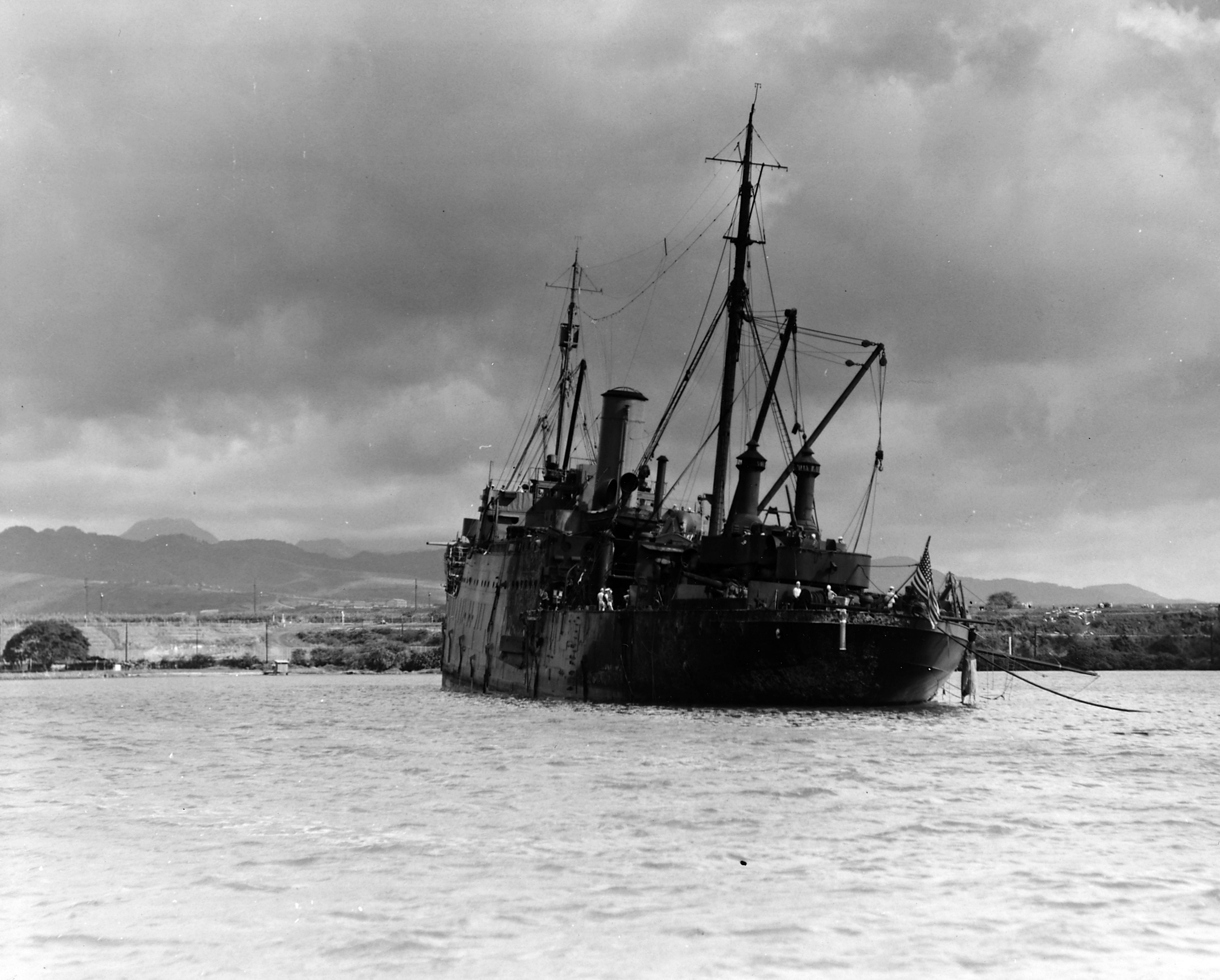 The U.S. Navy repair ship USS Vestal (AR-4) beached on Aiea shoal, Pearl Harbor, after the Japanese raid. She is listing from damage caused by two bombs that hit her during the attack.